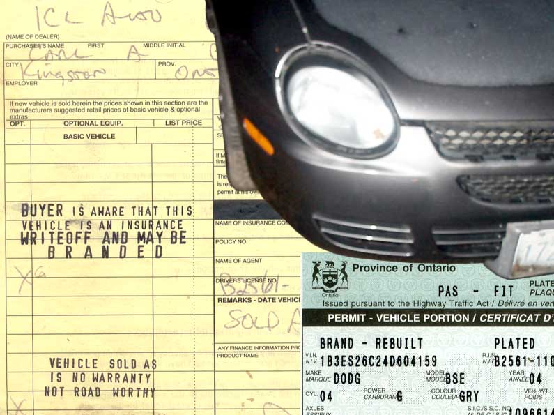 A title-branded vehicle; this 2004 Dodge had been repaired in Oshawa after collision damage to the front-right (passenger side) corner, and was then reinspected and rebranded as 'rebuilt'. (pd-user:carlb, photos taken March 2006)